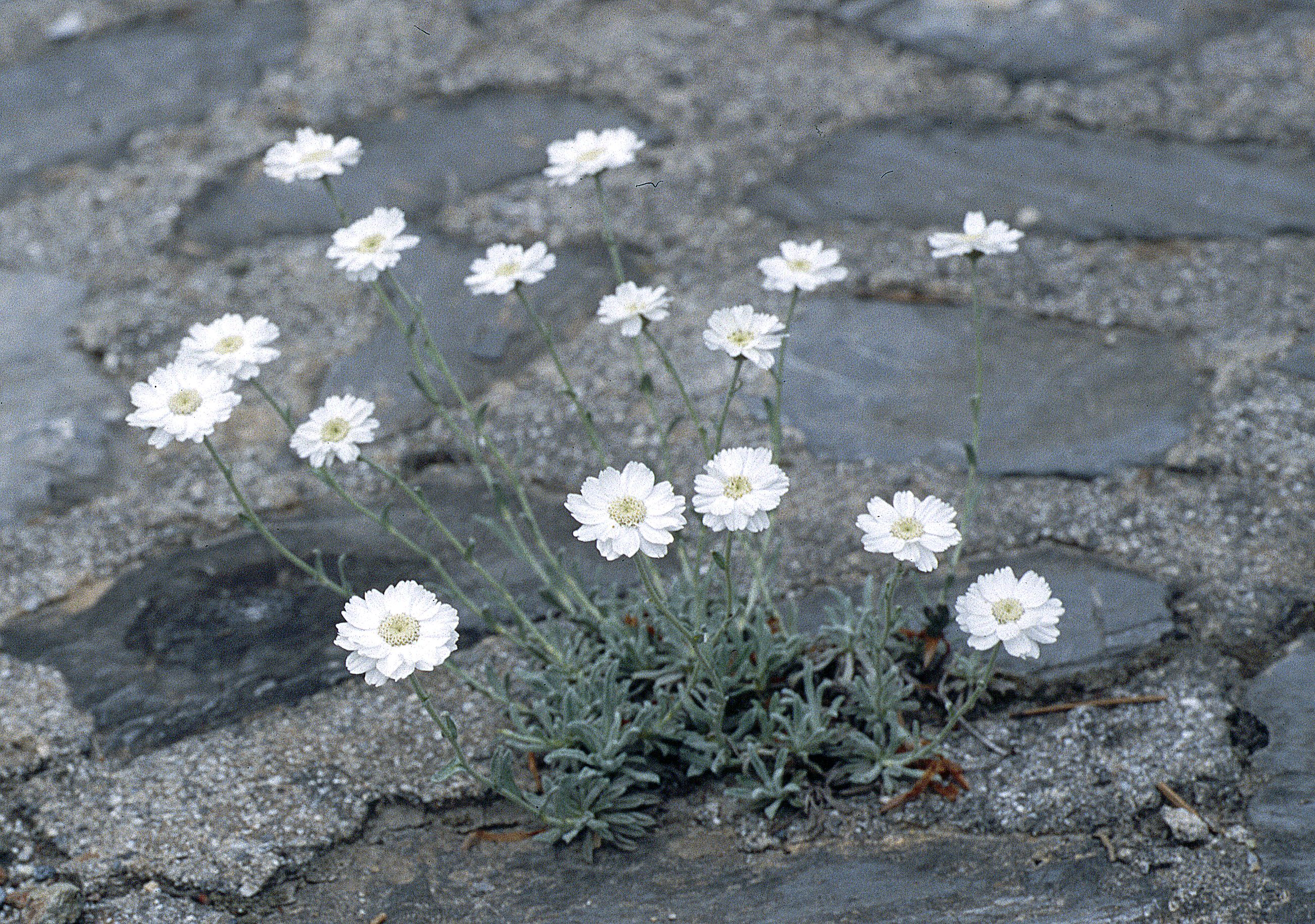 Achillea ageratifolia, Olymp